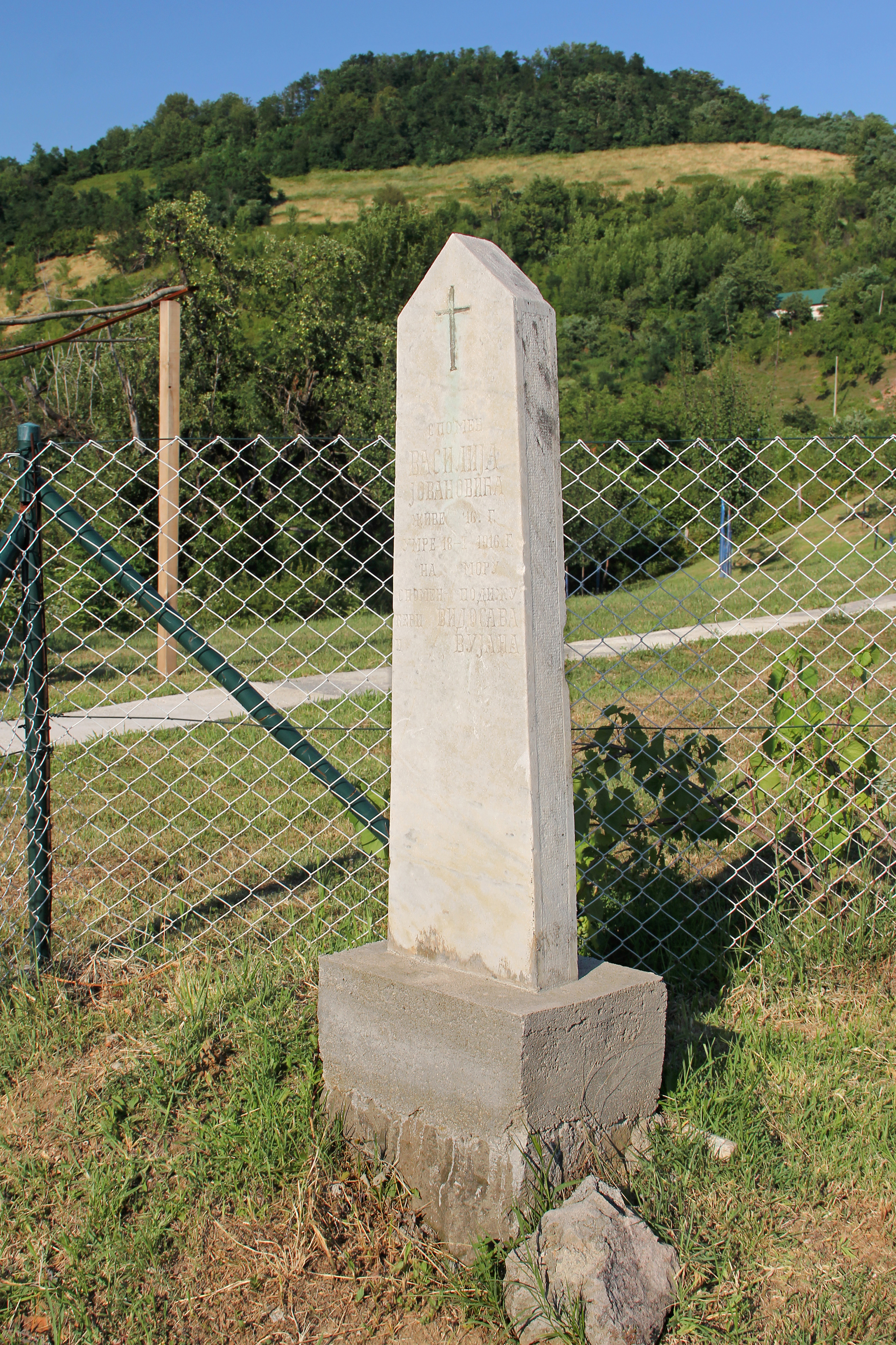 Roadside tombstone erected in memory of Vasilije Jovanovic. It is located in the village of Trudelj (the municipality of Gornji Milanovac), Serbia.